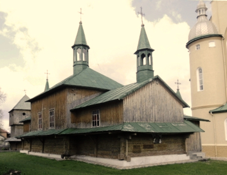 The wooden Greek Catholic Church of St. Nicholas, 1854. Urban-type settlement Velykyi Liubin, Lviv Oblast. (The church is not being used).